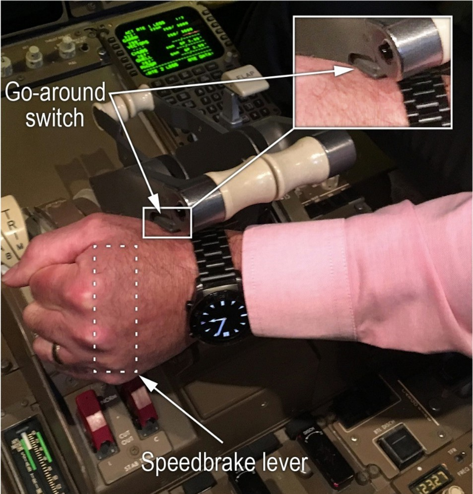 Atlas Air flight 5Y3591, a Boeing 767-300 operated for Amazon Air, was destroyed in a crash at Trinity Bay, near Anahuac, Texas, USA. All three on board were killed.